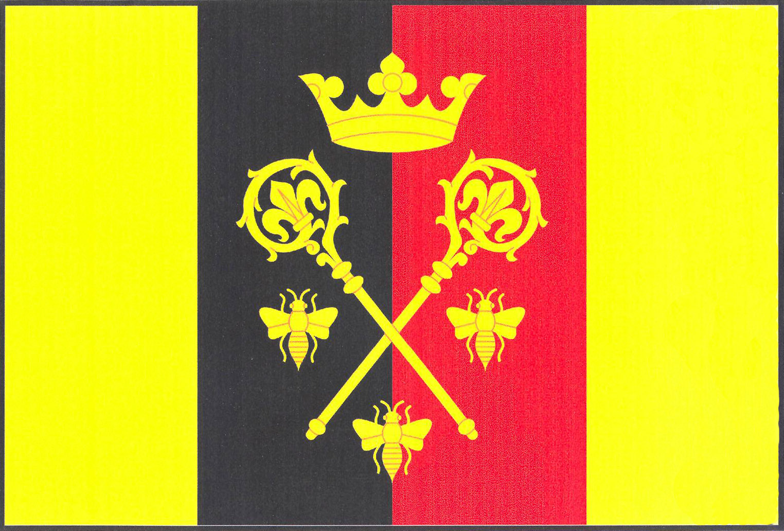 Municipal flag of Lešetice , District Příbram, Czech Republic